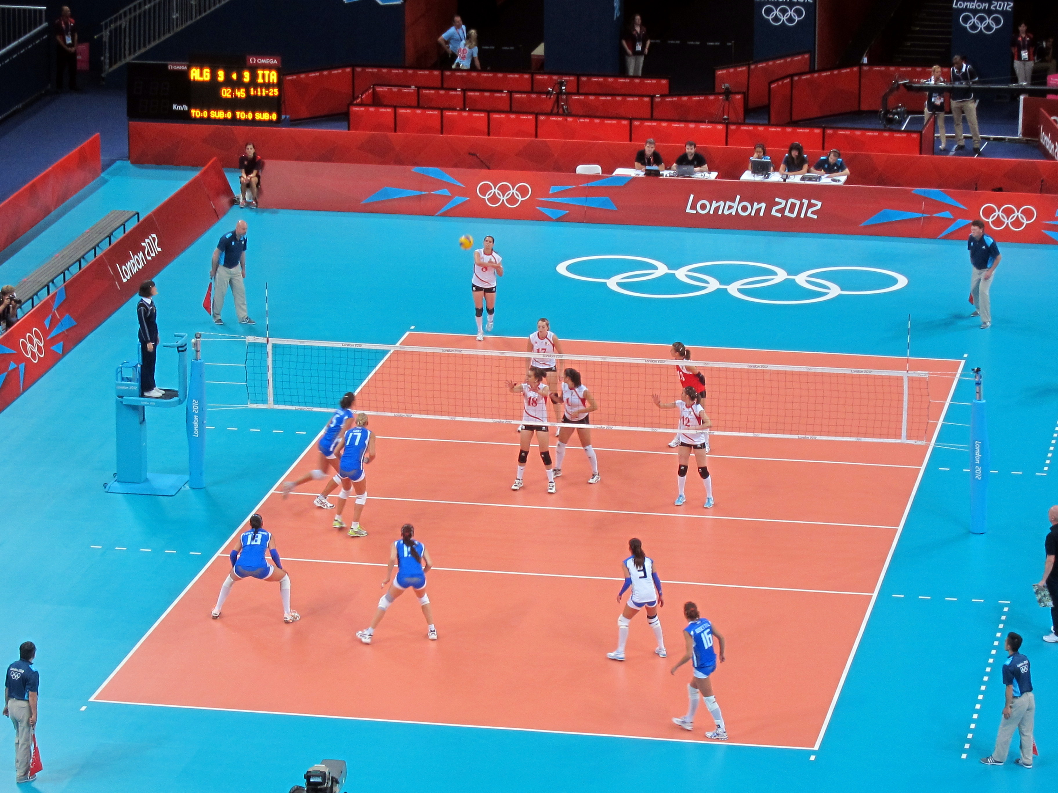 Volleyball at the 2012 Summer Olympics, ALG - ITA